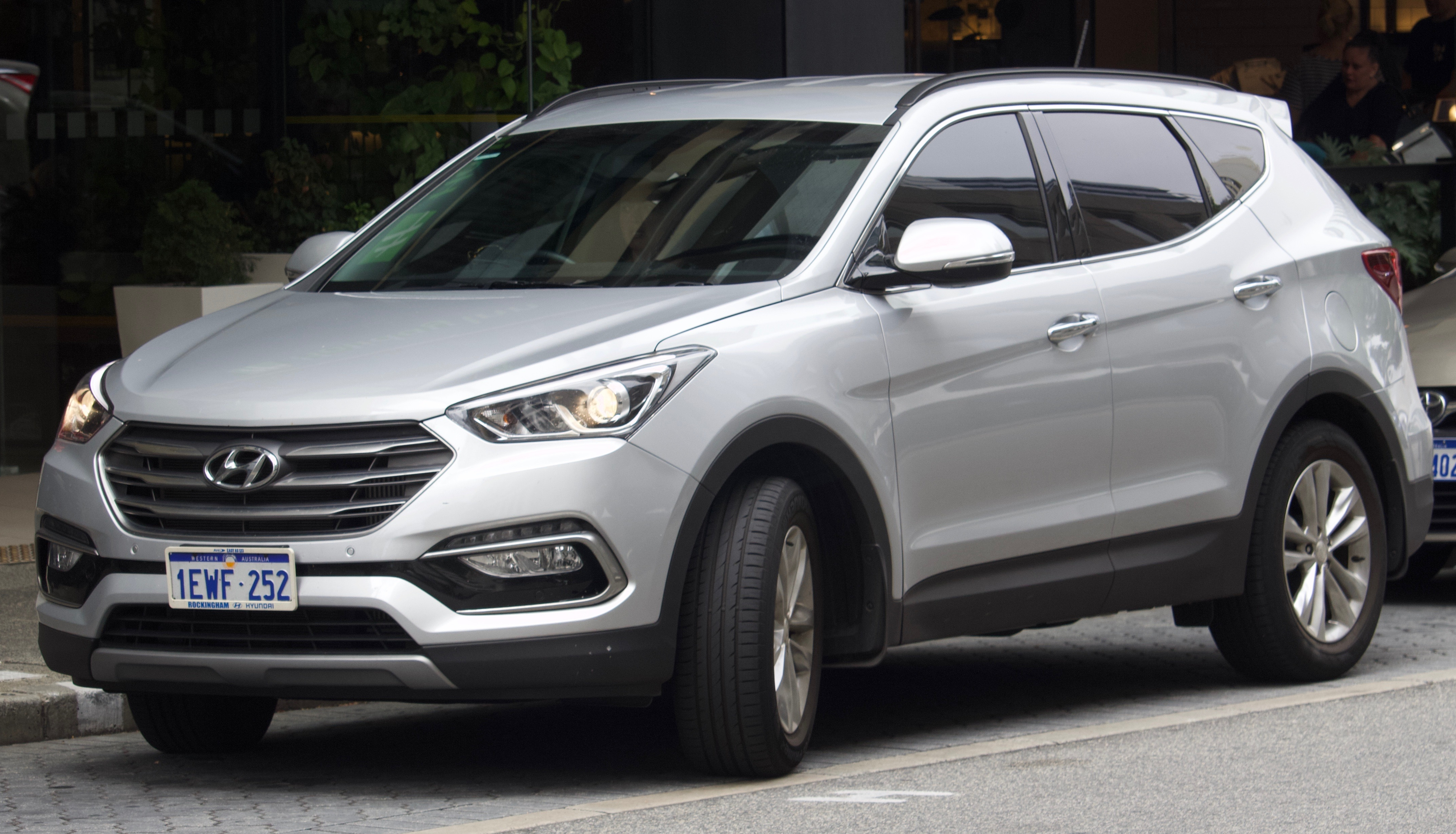 2016 Hyundai Santa-Fe (DM3 Series II) Elite CRDi wagon. Photographed in Perth, Western Australia, Australia.